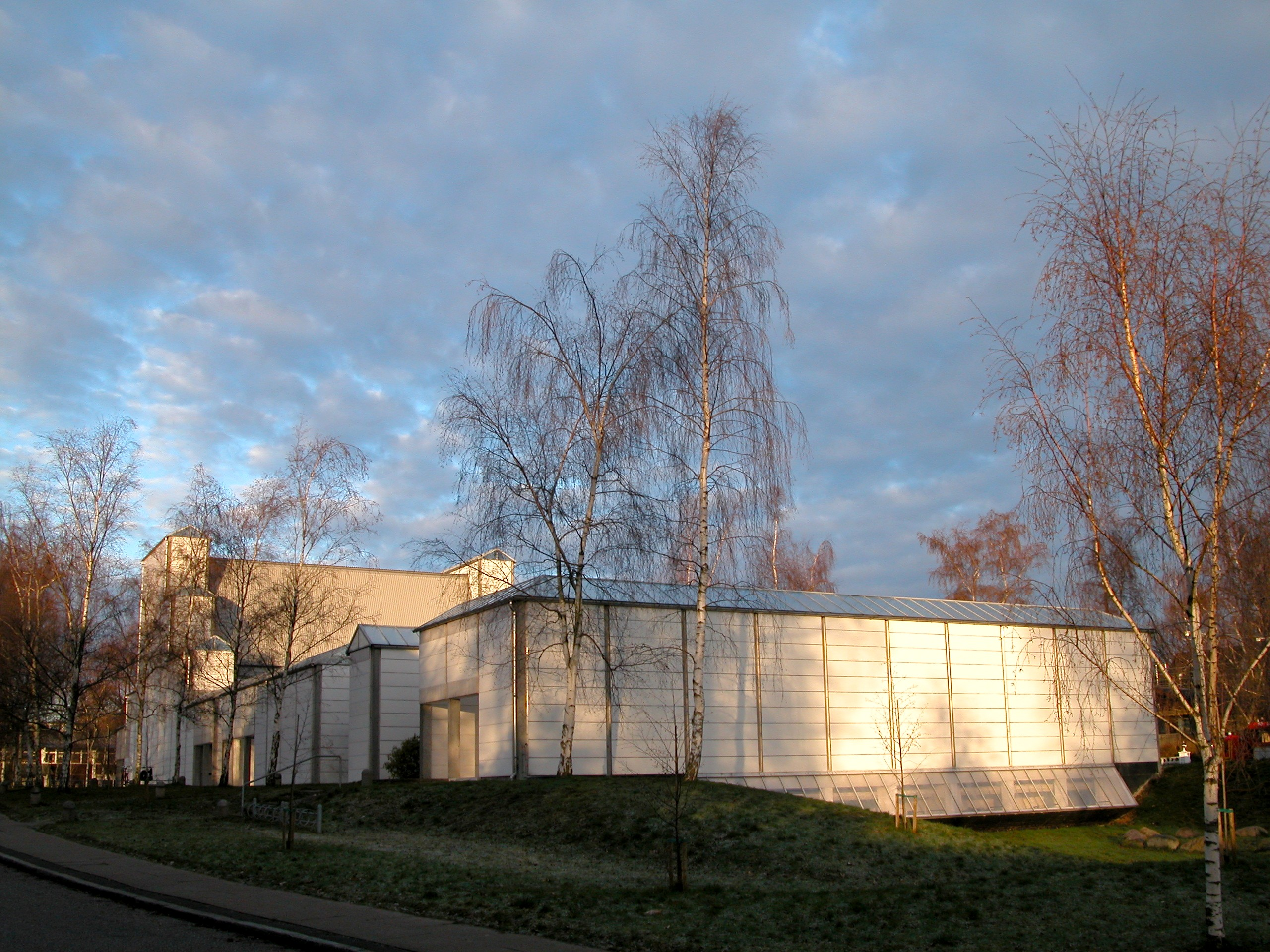 Church of Bagsværd